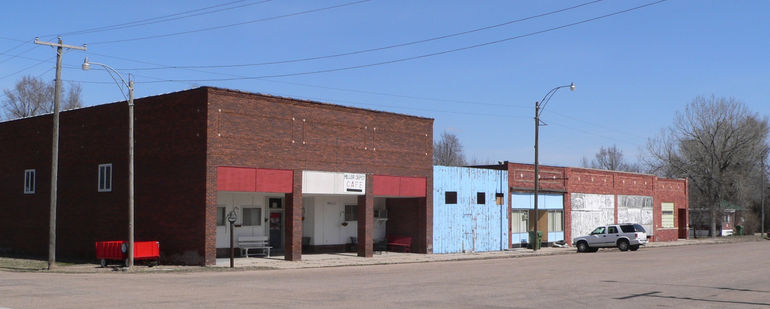 Downtown Miller, Nebraska, seen from the southwest.